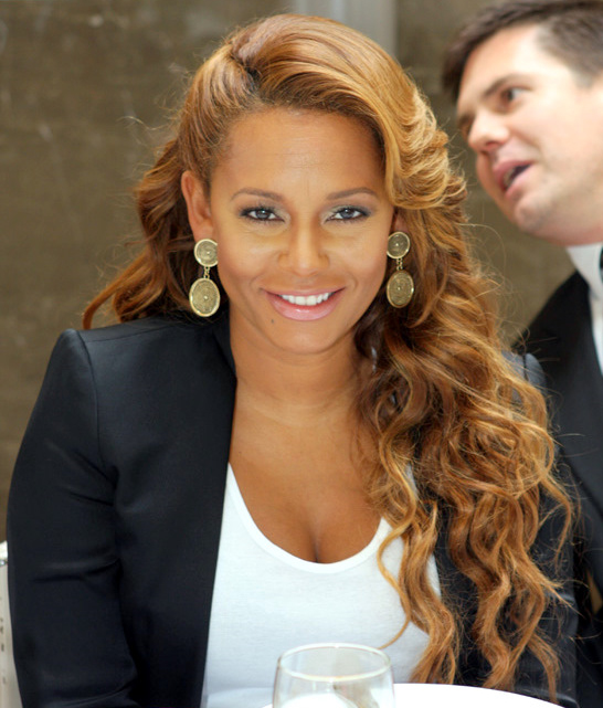 Singer Melanie B The New Face of Jenny Craig 2011.